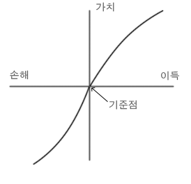 Graph: Hypothetical value function. Prospect theory